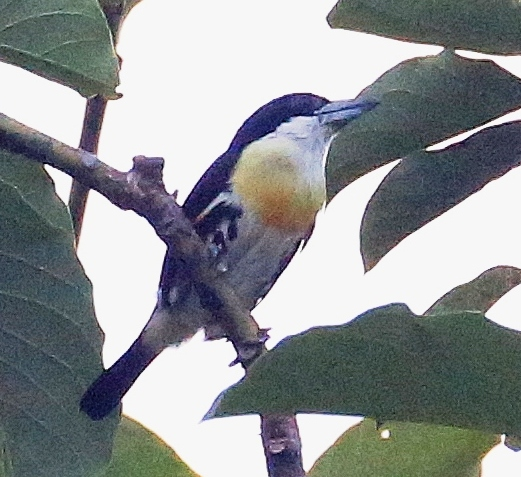 A male Spot-crowned barbet in Panama